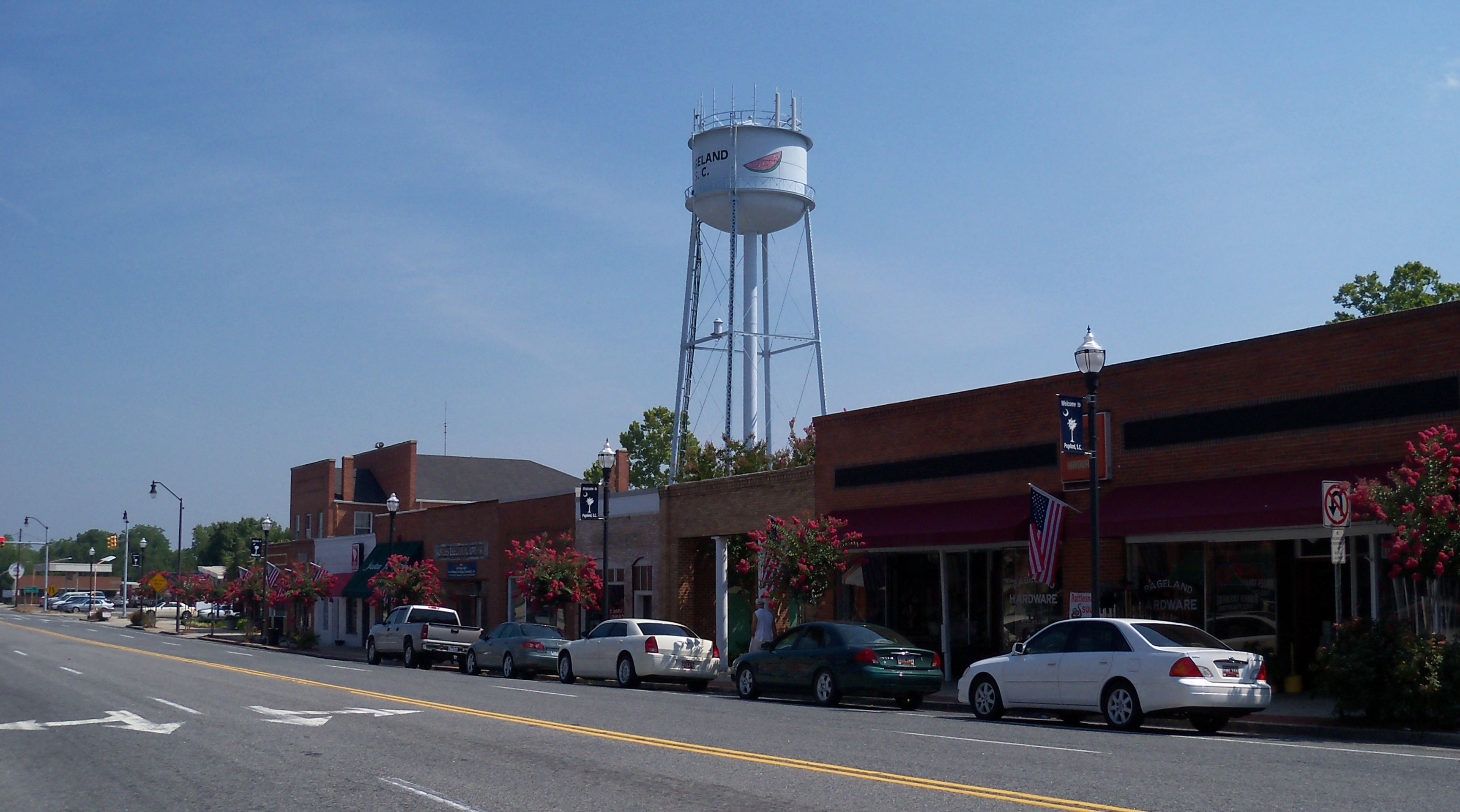 Street in downtown Pageland, South Carolina, USA